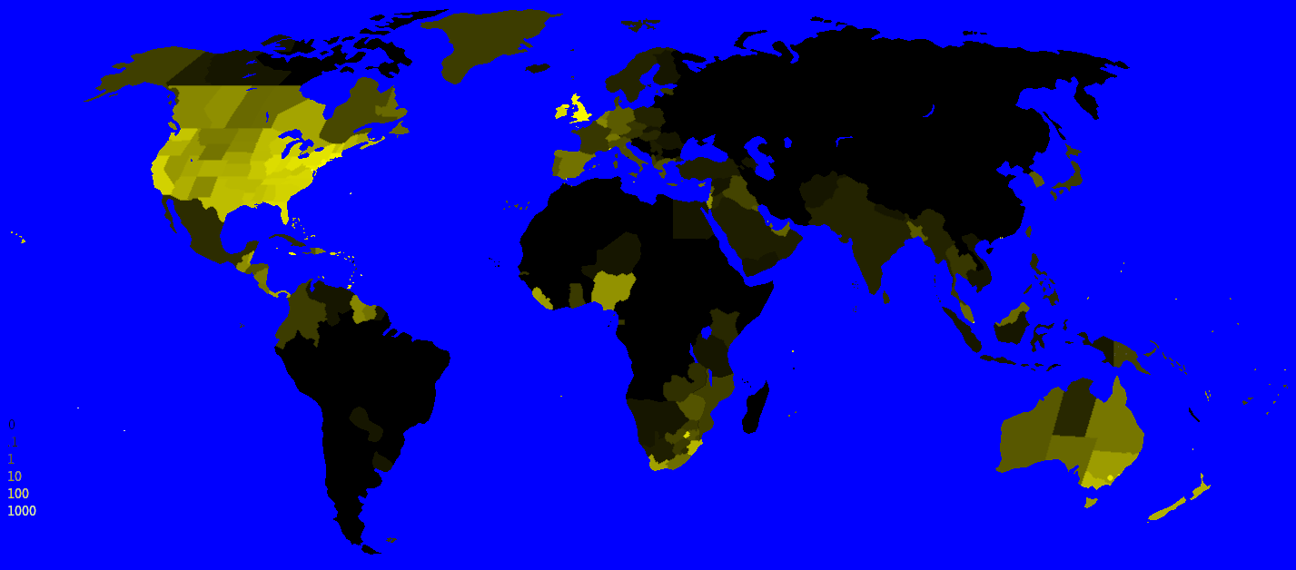 Population density of people whose native language is English. I think borderless is best - less confusing for the eye.